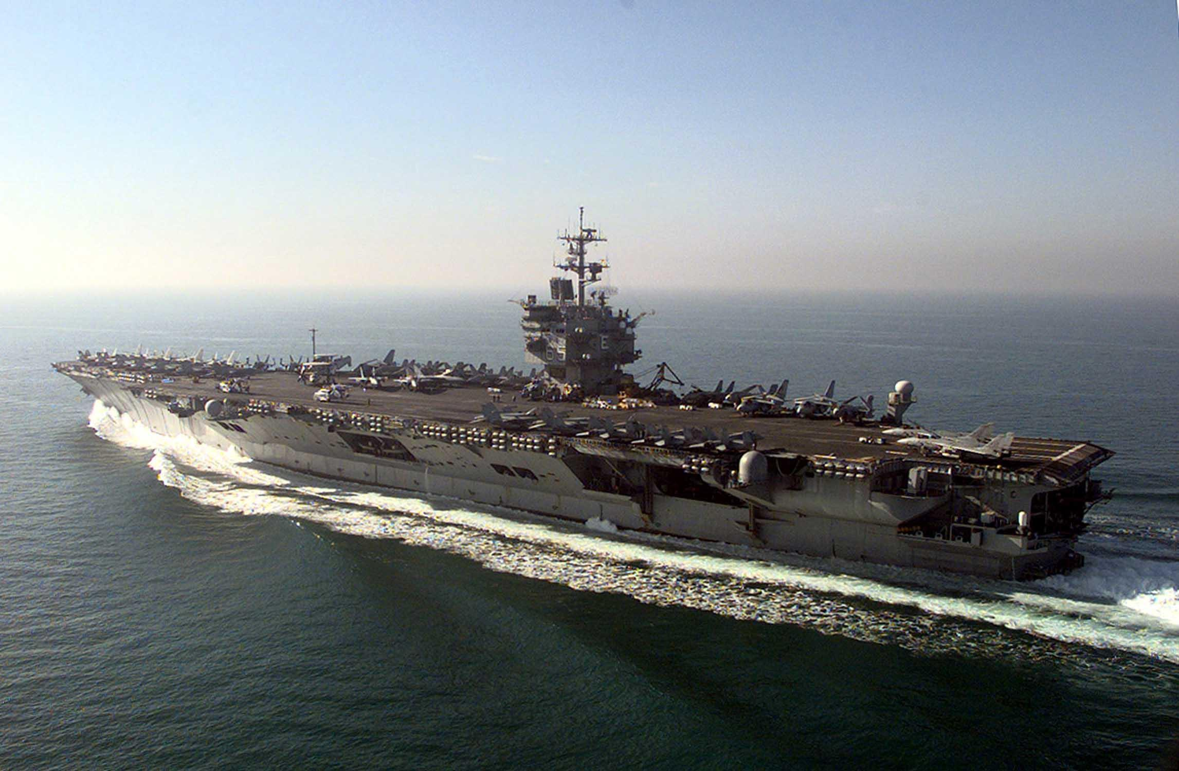 The aircraft carrier USS Enterprise (CVN 65) steams to the southern end of its operating area in the Persian Gulf the morning after the first wave of air strikes on Iraqi targets on Dec. 17, 1998, in support of Operation Desert Fox. Note the large letter "E" on the back of the island.